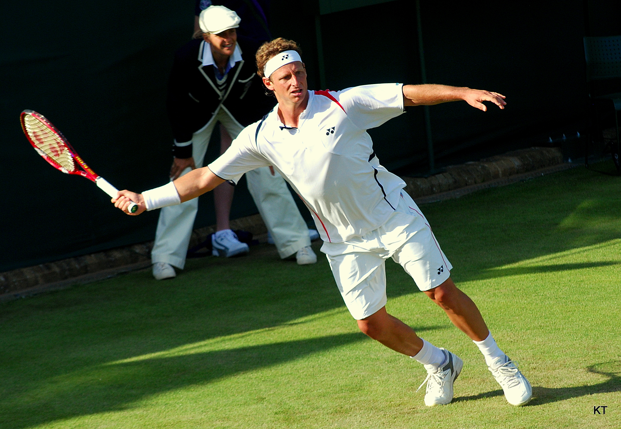 David Nalbandian during his first round match with Julian Reister. Nalbandian won 7-5, 6-2, 6-3. Day 2 of Wimbledon 2011.